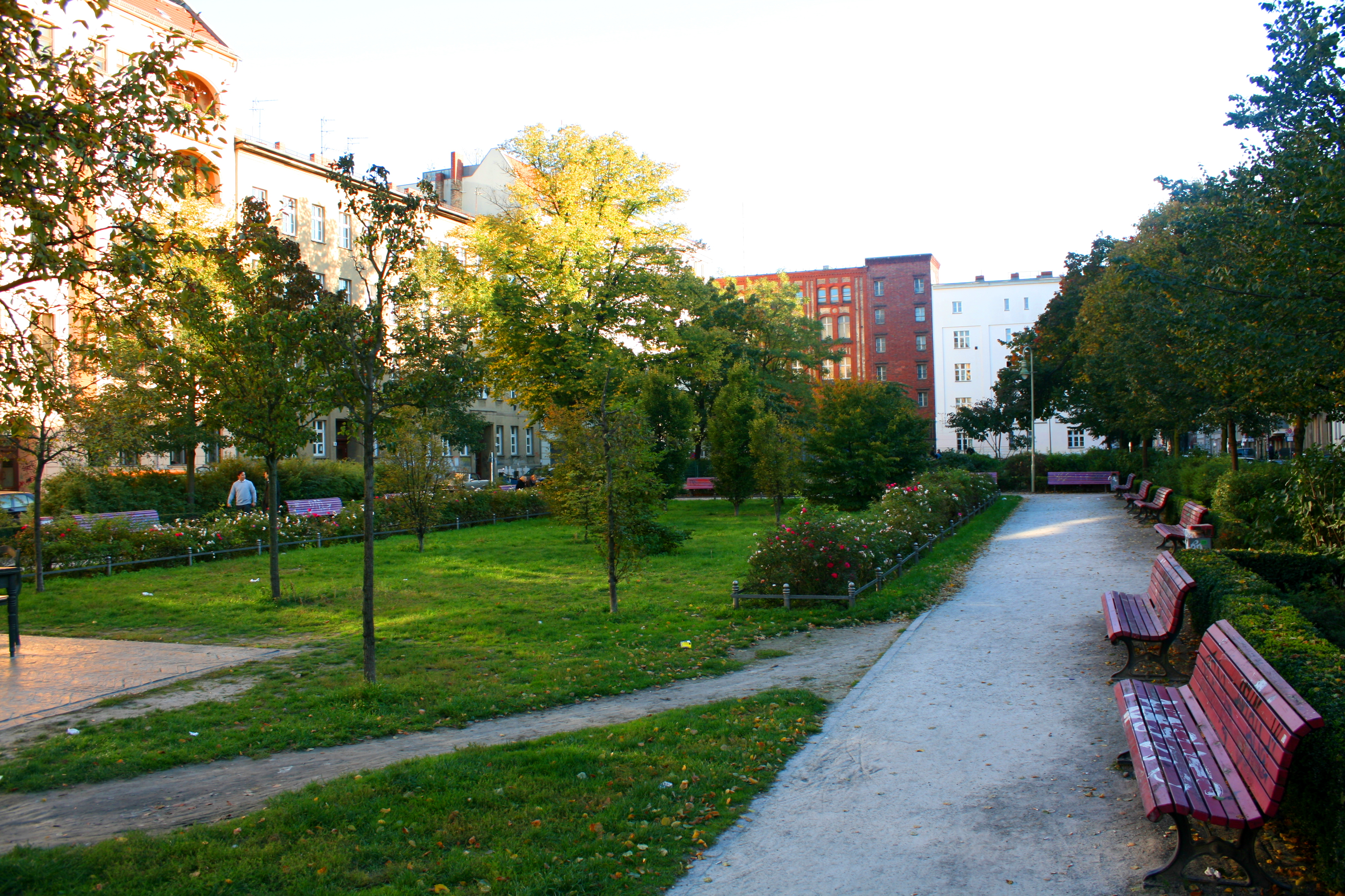 View across Koppenplatz in Berlin, Germany from north-west to south-east